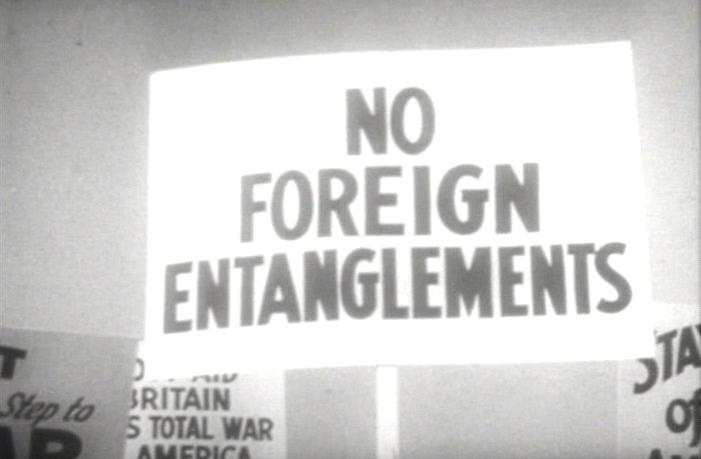 NO FOREIGN ENTANGLEMENTS anti-war protest sign prior to U.S. entry into WWII.